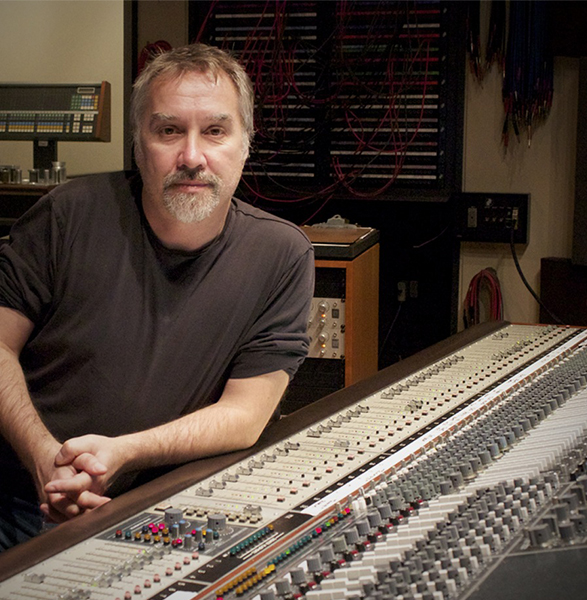 Image of Michael Wojewoda